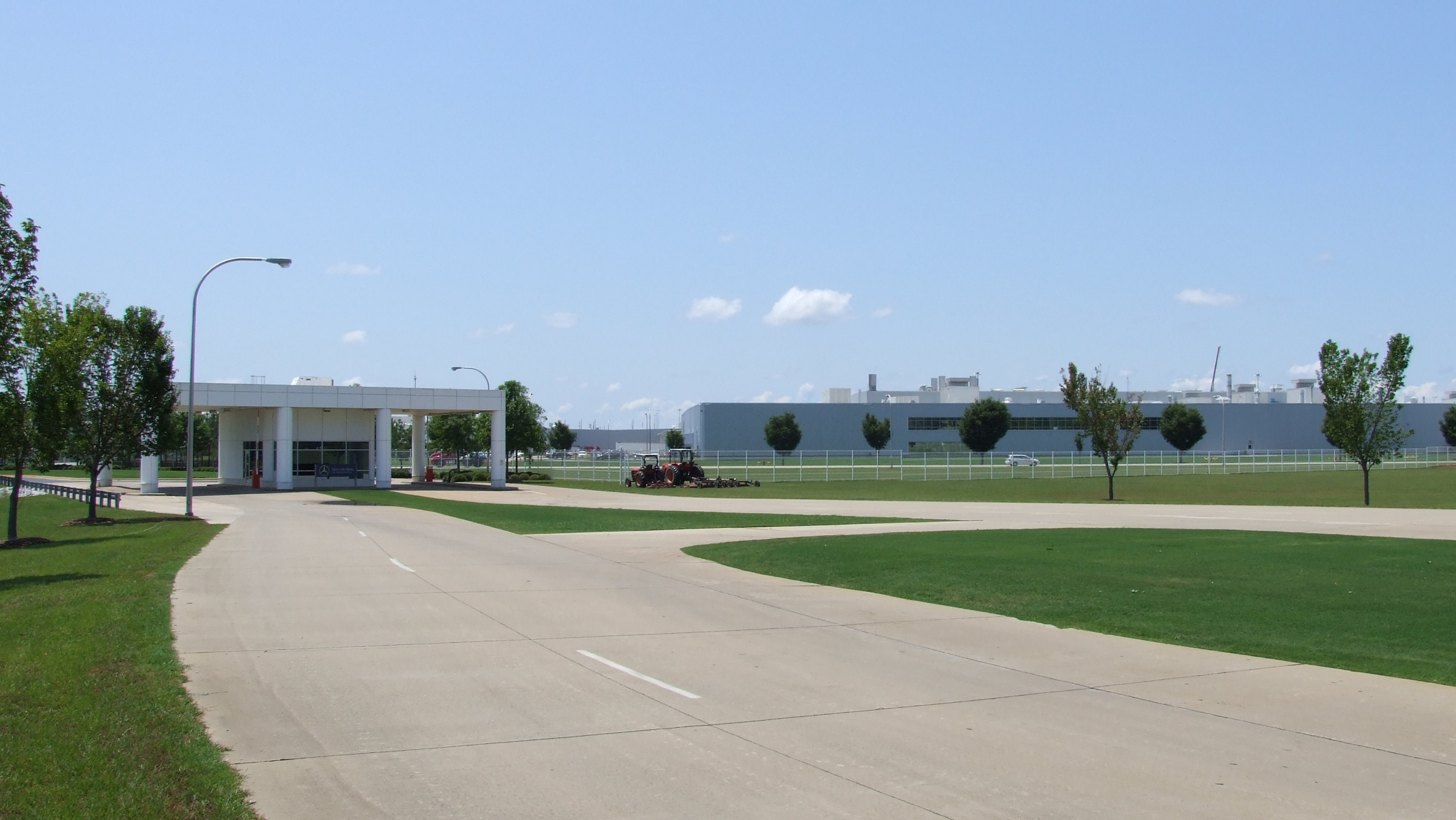 Mercedes-Benz US International MBUSI Plant 2 in Vance, Alabama, USA